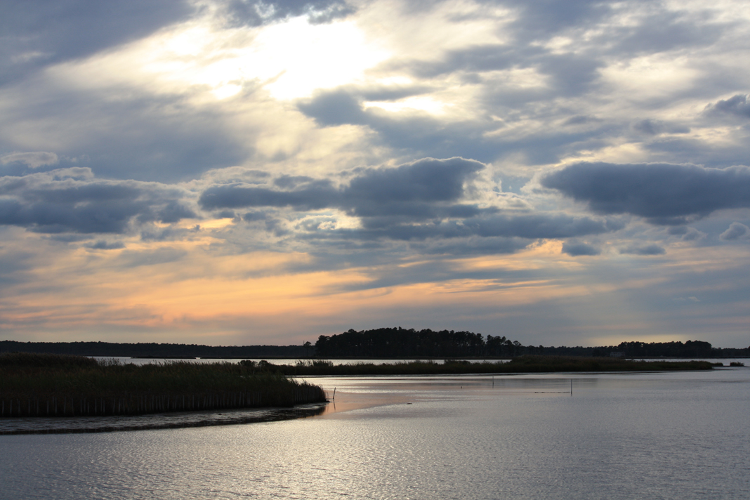 View of the water after a storm, along the wildlife drive at Blackwater National Wildlife Refuge.